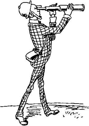 Mister Pief, a travelling Englishman from the Plisch und Plum cartoon